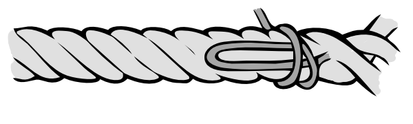 bind a common whipping (step 2), selfdrawn, GNU-FDL drawing by: Hella Handdrawing 1995, 2004 new revised with autotrace [1], sodipodi[2] and gimp [3] for the german wikipedia. first publicated: 1995 in Knoten (nicht nur) für Pfadfinderinnen, publisher PSG München alternative view (all steps in one picture): common wipping binding other pictures of this series: rope without wipping, step 1, step 3, finished common wipping 18:08, 21 May 2004 Hella 600x180 (32,681 bytes) (*bind a common whipping (step 2), selfdrawn, GNU-FDL)